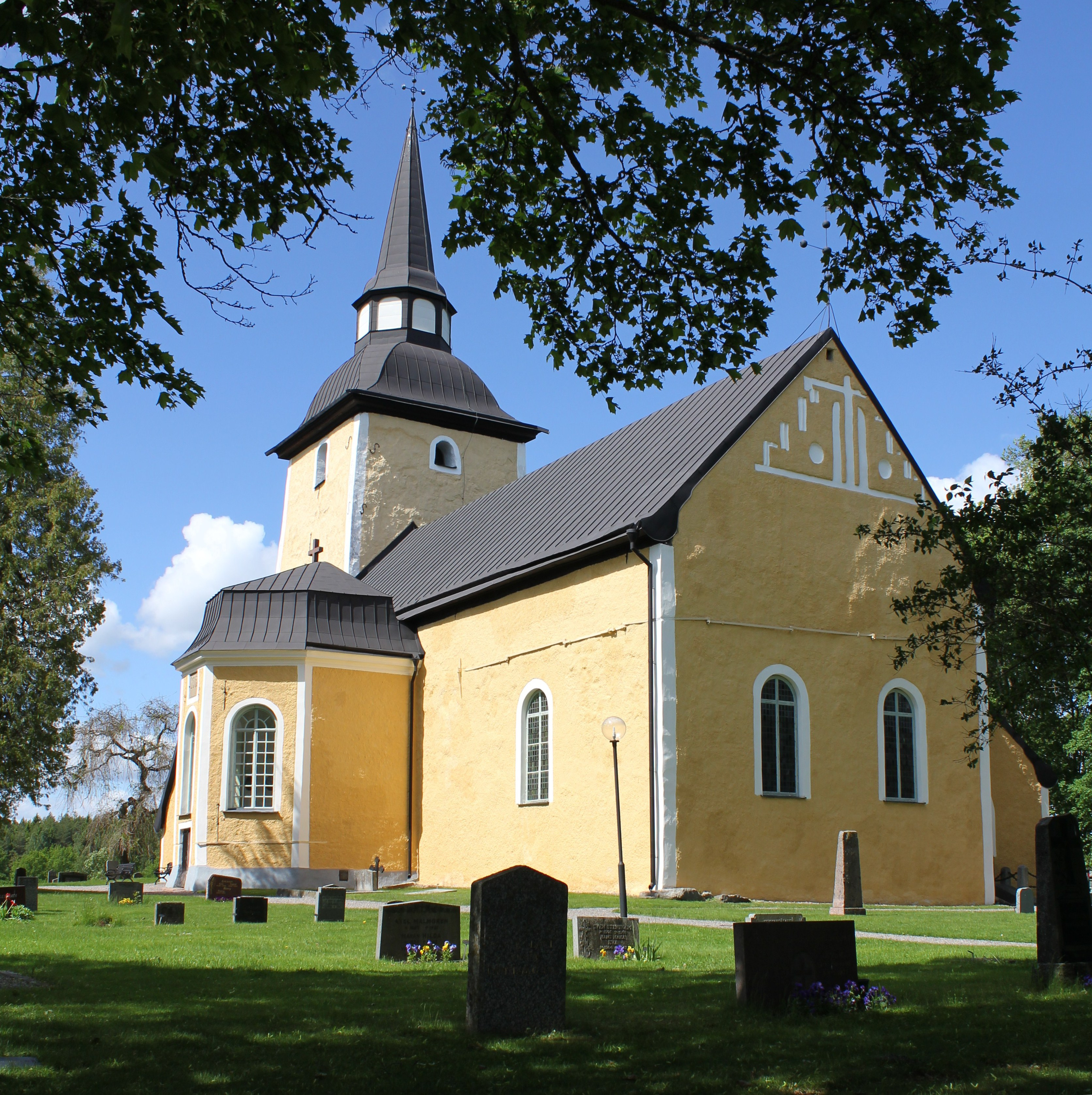 Enköpings-Näs kyrka, Enköpings kommun, Sweden. Photo taken by the uploader.